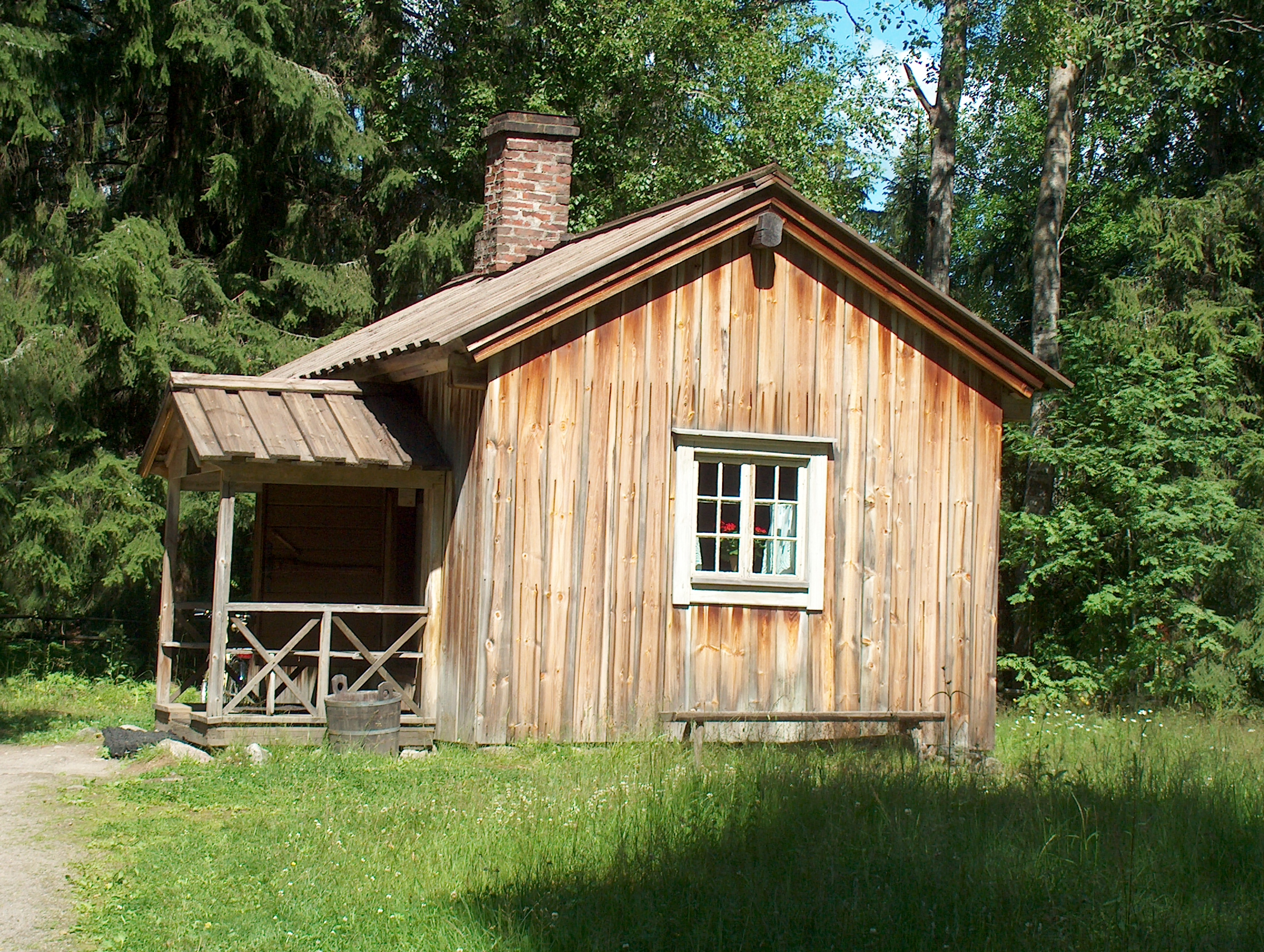 The cottage in which the Finnish national writer Aleksis Kivi died in 1872